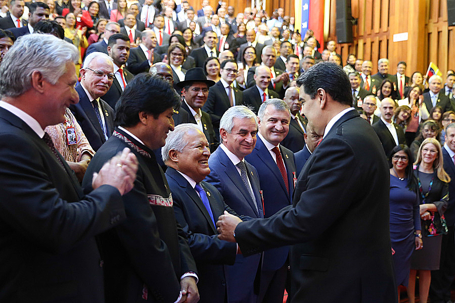 The President of El Salvador greets Maduro at 2019 inauguration